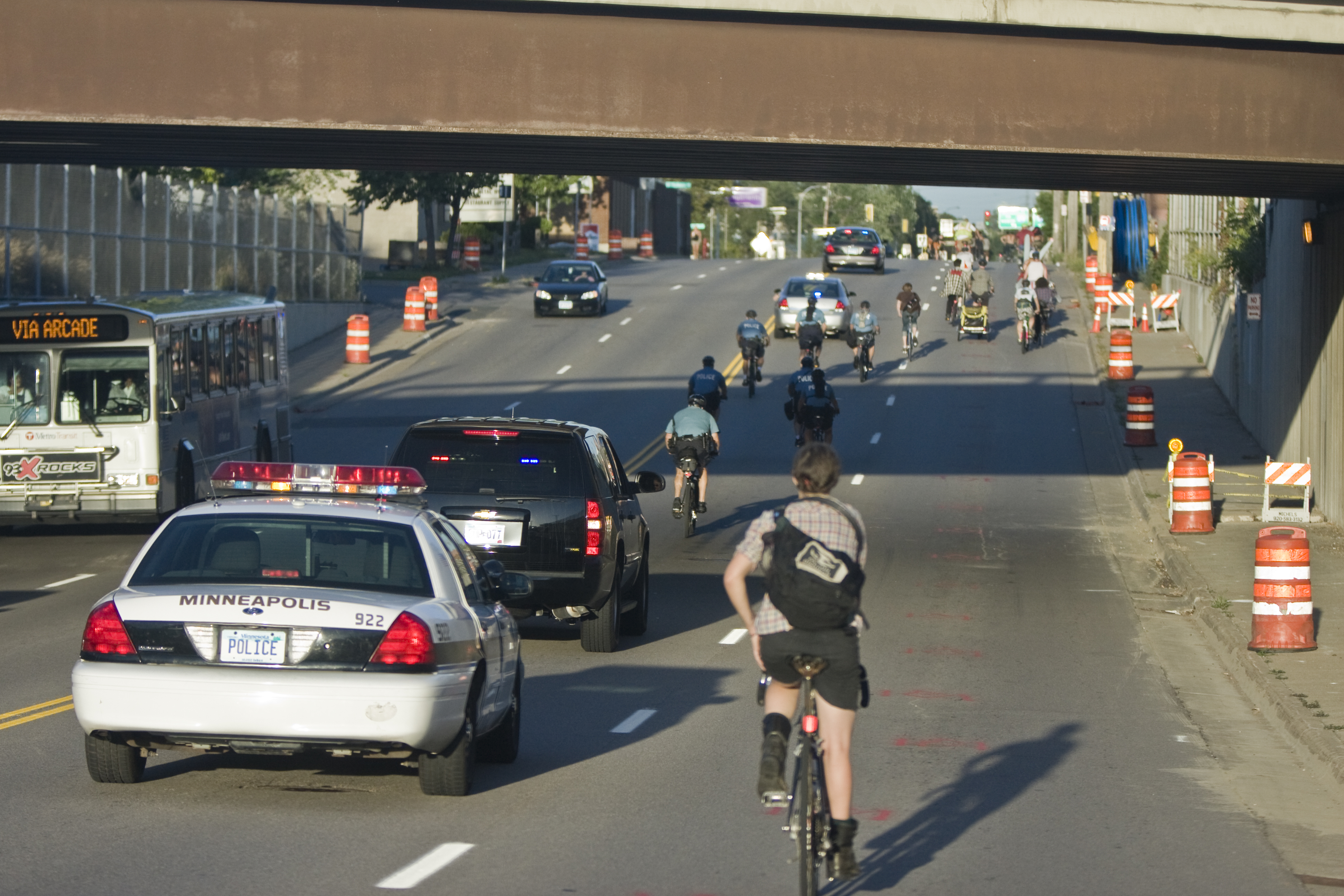 Minneapolis Critical Mass August 29, 2008